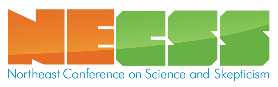 Northeast Conference on Science & Skepticism logo against a white background.